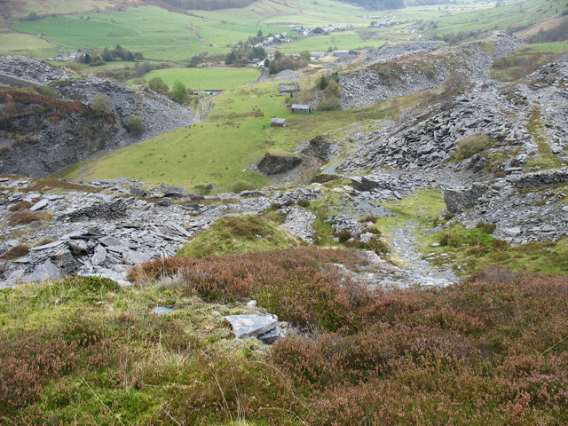 View down to the infilled and landscaped lower pit of Rhiw Fachno Quarry The deep pit which existed here and the reduction area next to it have been landscaped, robbing the quarry of much of its character.